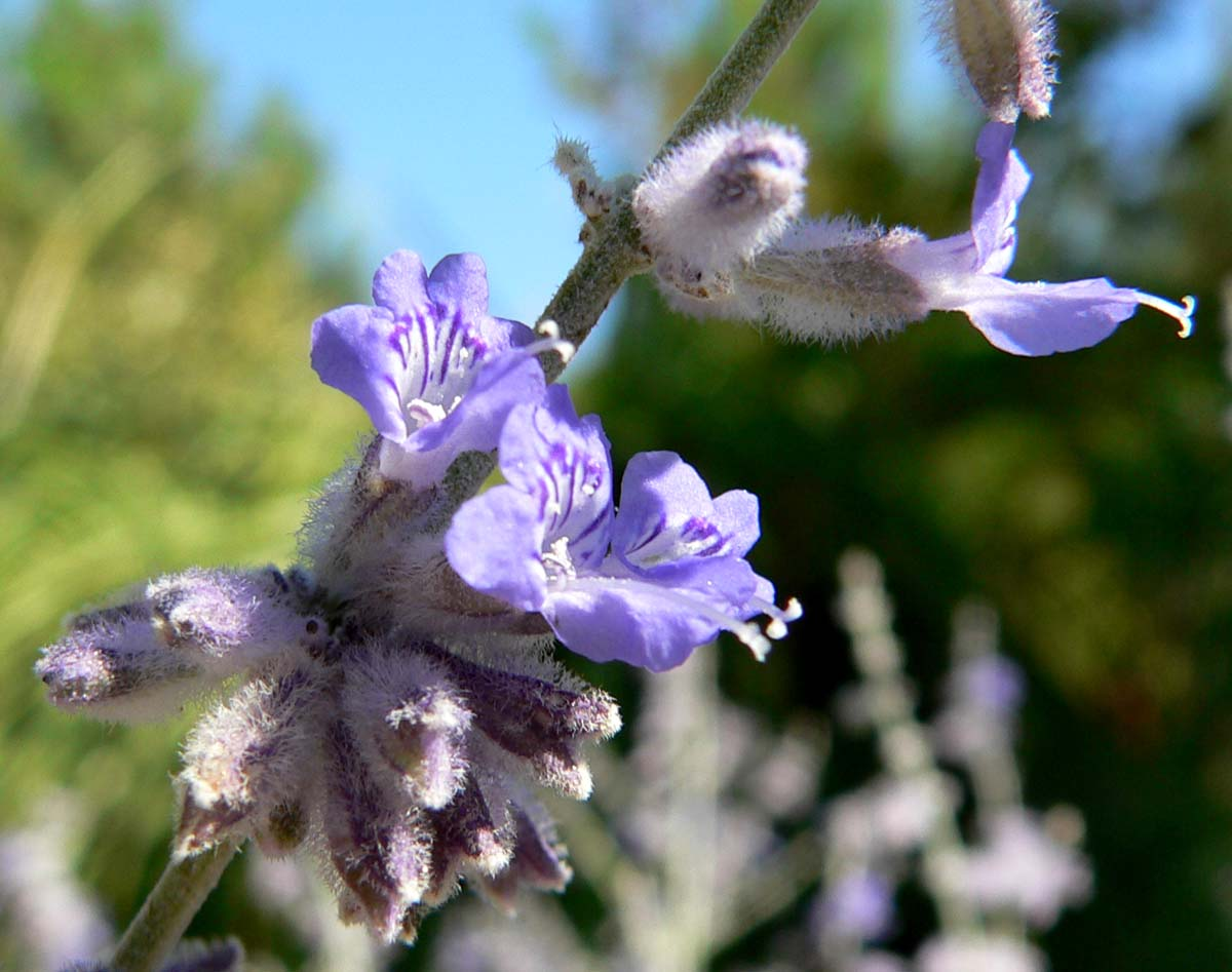 Photo of Perovskia atriplicifolia (Russian sage) at the Springs Preserve garden in Las Vegas, Nevada